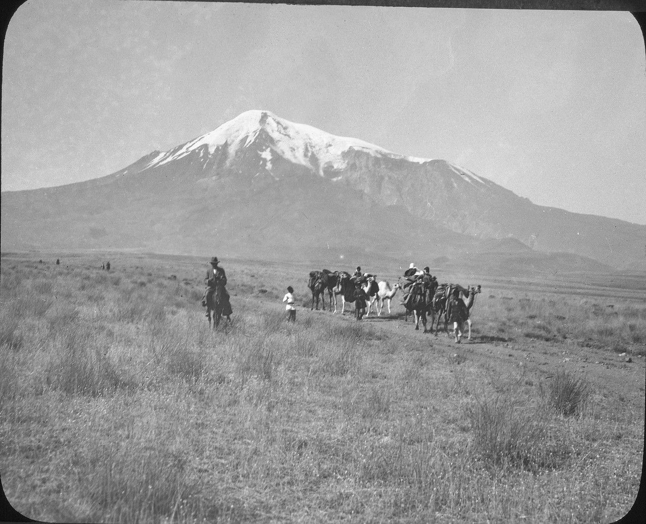 The Caucasian expedition of Conrad Keller, 1912